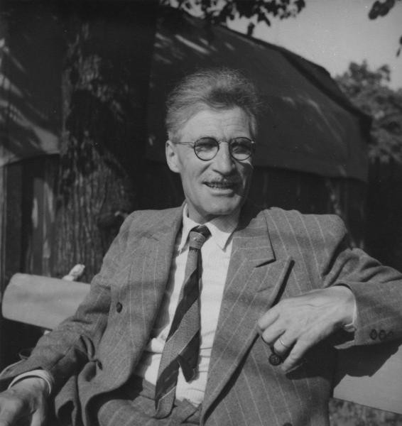 Photograph of the Finnish circus manager Johan Adolf Fredrik Sariola (1886–1967). Photographed at Suomen Suurkisat in Helsinki.